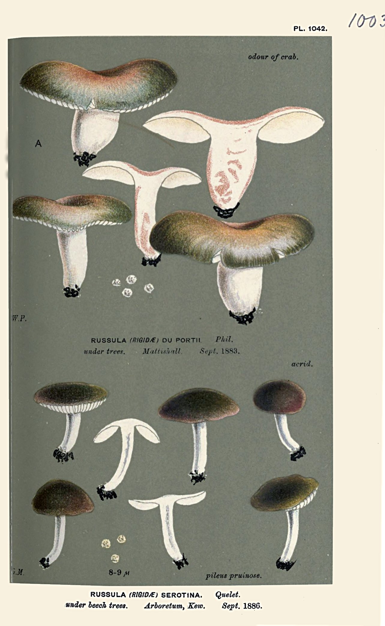 Ilustrations of British Fungi (Hymenomycetes), to serve as an atlas to the "Handbook of British Fungi". by Mordecai Cubitt Cooke; Published 1881 by Williams and Norgate in London. (English). Plate 1042. Page 337 LACTARIUS (RUSSULARIA) CAMPHORATUS. Bull. in Woods. The Wrekin. Sep. 1875. RUSSULA (RIGIDAE) DU PORTII. Phillips, amongst grass. Kew Gardens, 1882. RUSSULA (RIGIDAE) SEROTINA. Quelet. under beech trees. Arboretum, Kew. Sept. 1886.